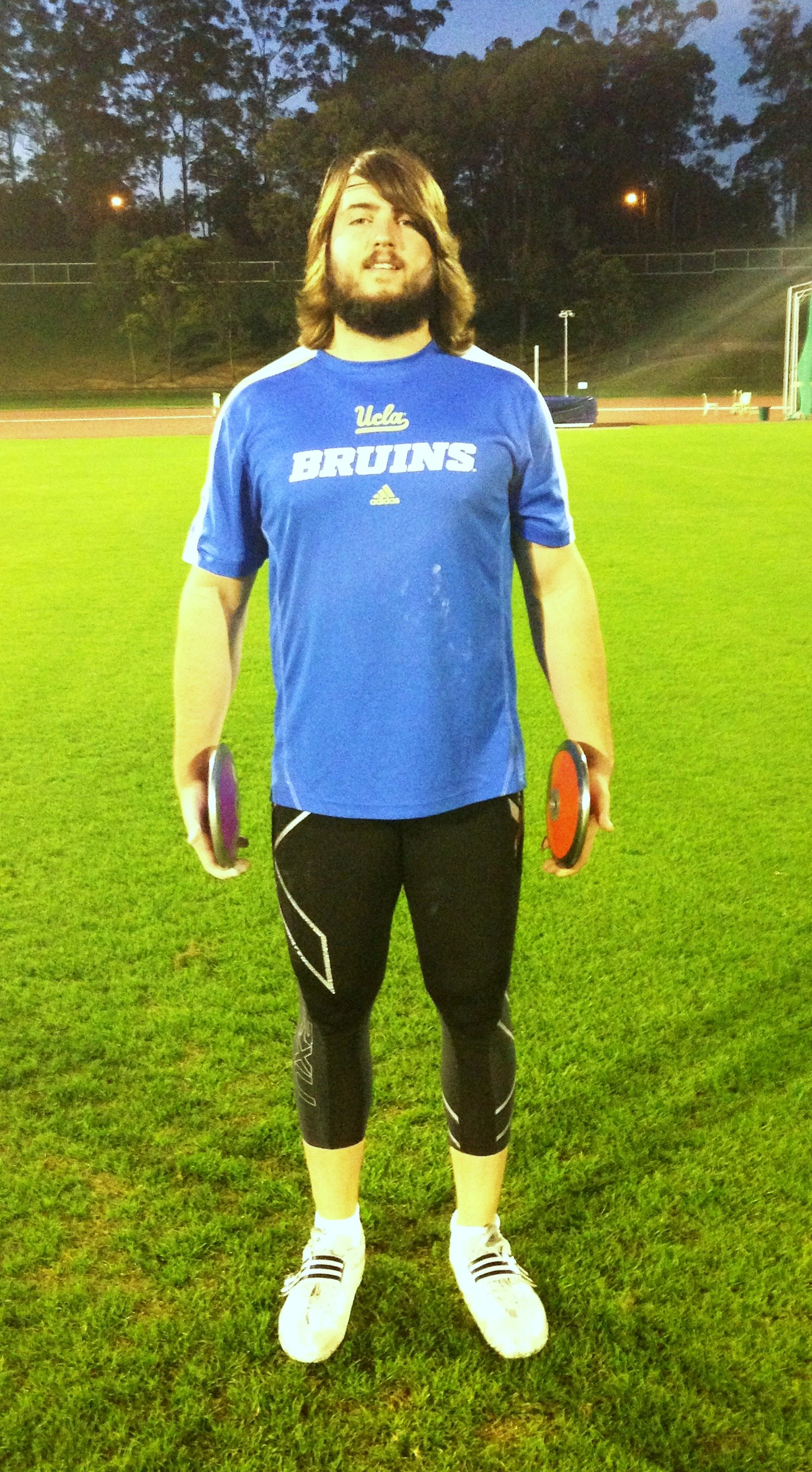 Julian Wruck training at Queensland State Athletics Centre in July 2013